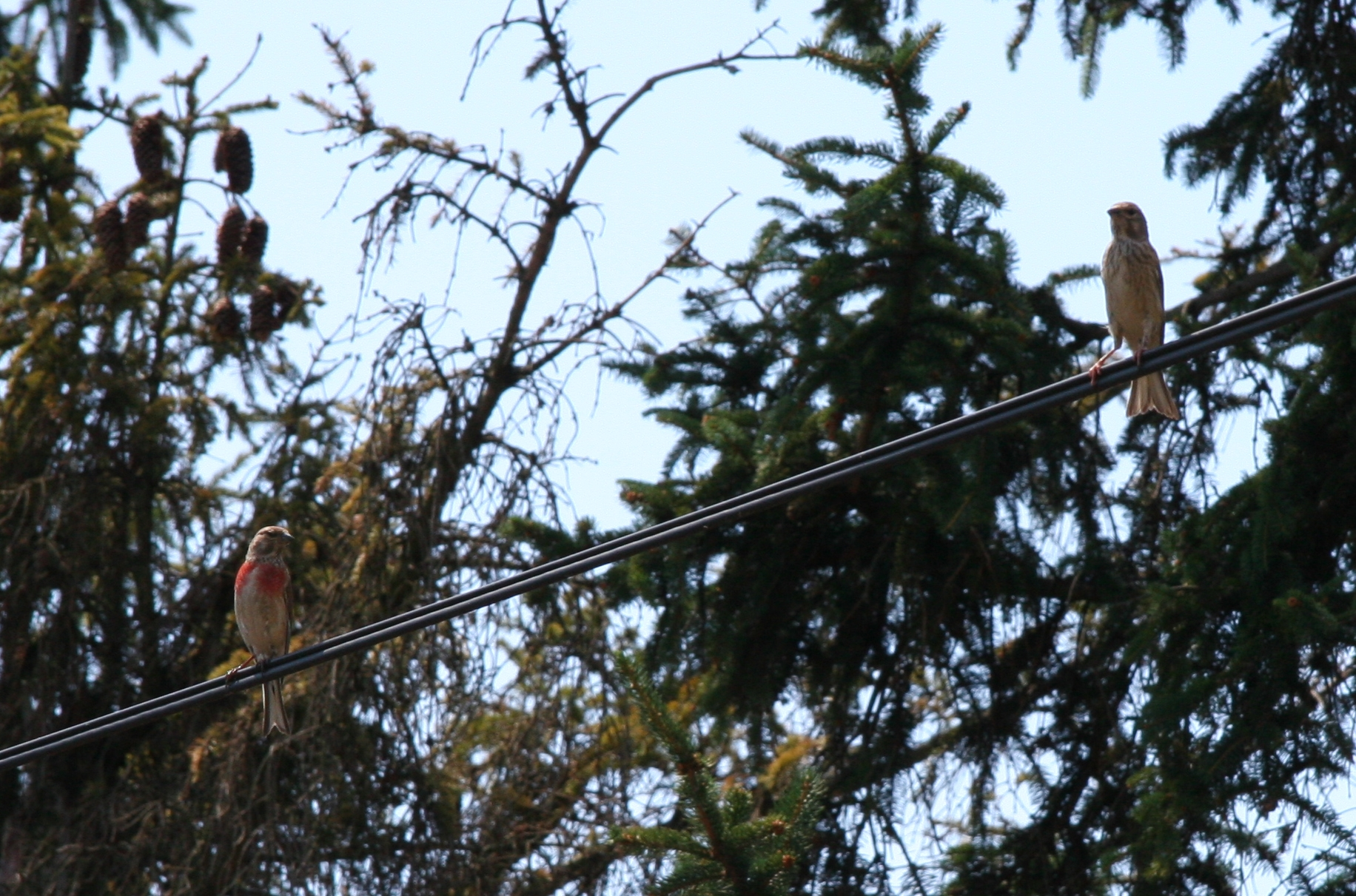 Bluthänfling (Carduelis cannabina)